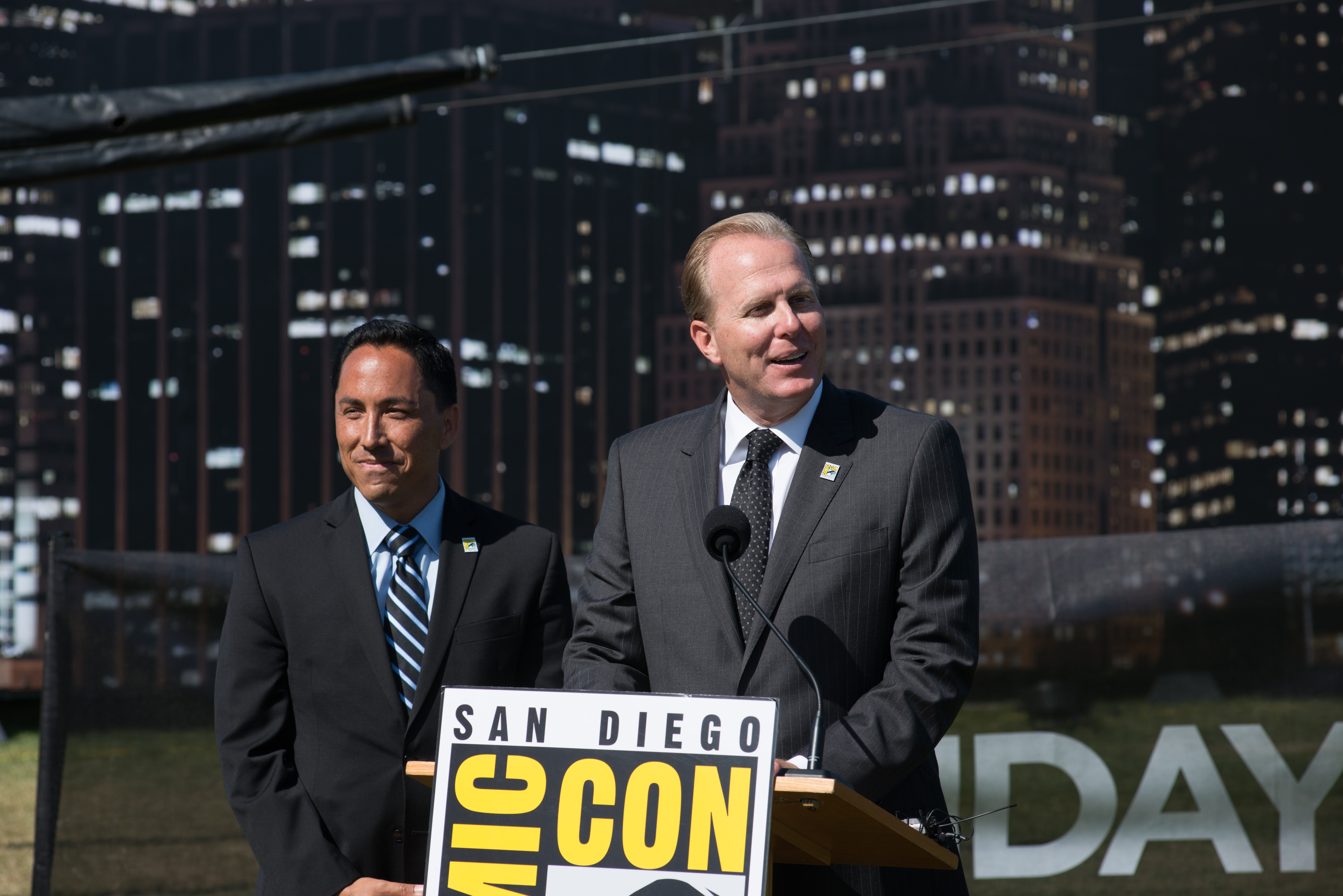 Todd Gloria and Kevin Faulconer during San Diego Comic-Con 2014